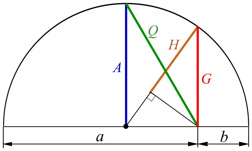 Mean values